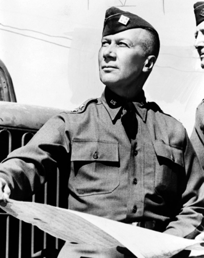 Major General Lloyd Fredendall